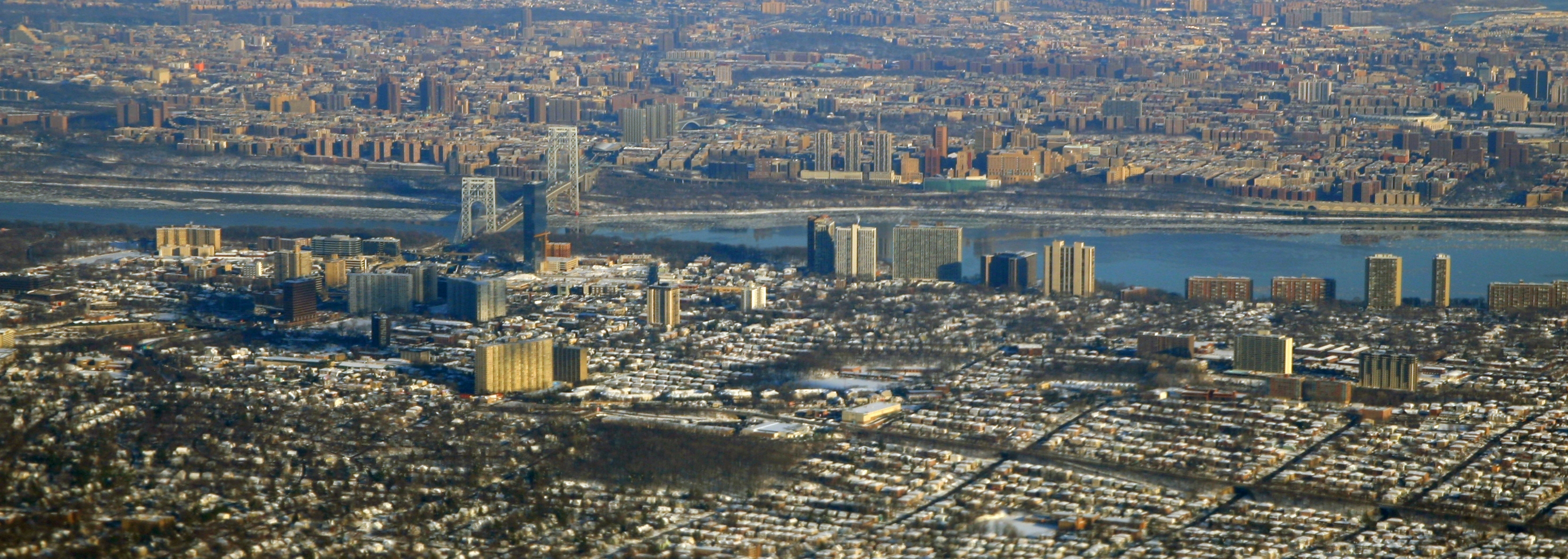 Aerial image of Fort Lee, New Jersey looking east to Hudson River and Upper Manhattan